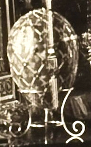 Photograph detail of the exhibition of the Imperial Family’s Fabergé collection held in the Von Dervis Mansion on the English Embankment, St. Petersburg (Russia) in March 1902. The exhibition was held in aid of the Imperial Women's Patriotic Society Schools and was the first public exhibition ever to display Fabergé's work in Russia. It was organised under the auspices of the Tsarina Alexandra Feodorovna.